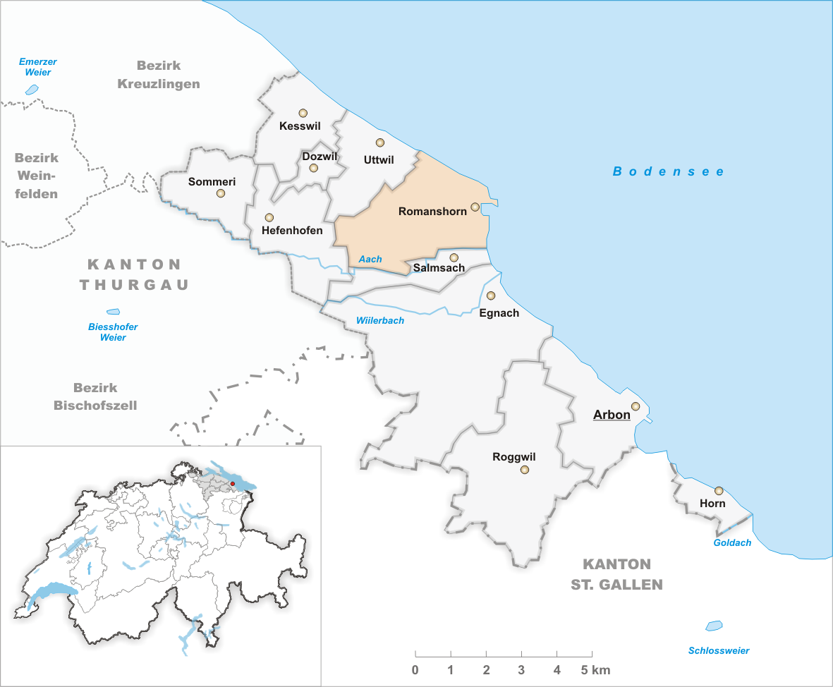 Municipality Romanshorn